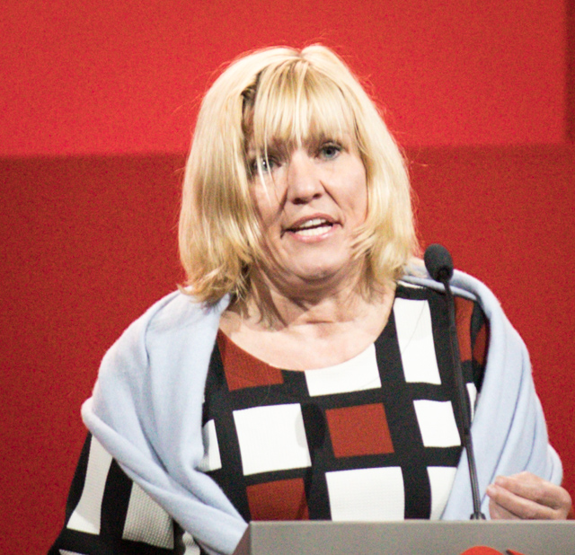 Kari-Anne Opsal during the debate at Norway Labour party's bi-yearly congress in 2017(Arbeiderpartiets landsmøte).